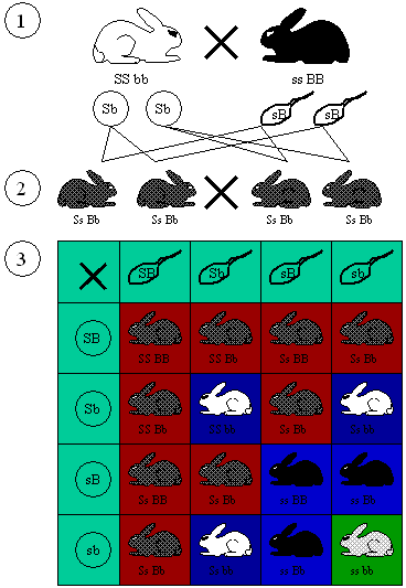 Two traits (black/white and short/long hair, with black and short dominant) show a 9:3:3:1 ratio in the F2 generation. (S=short, s=long, B=black, b=white hair) (1) Parental generation. (2) F1 generation. (3) F2 generation. Results : 9x short black hair, 3x long black hair, 3x short white hair, 1x long white hair. Originally from Nupedia, by Magnus Manske 11:18, 10 January 2003 Magnus Manske 368x533 (6,325 bytes) (From :en:Nupedia )